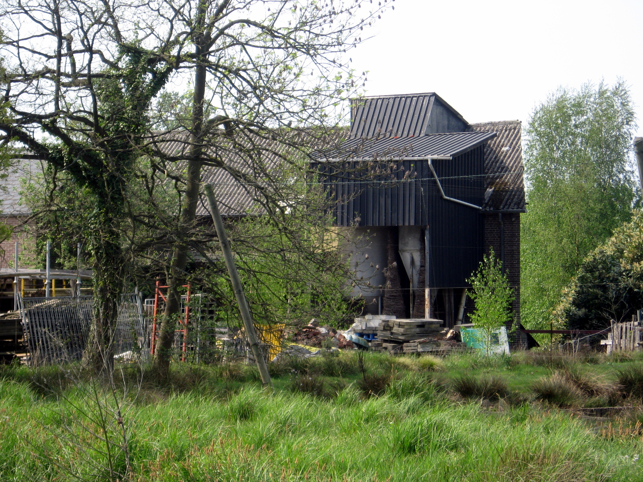 Watermill "De Bookmolen" in Zonhoven, Limburg, Belgium